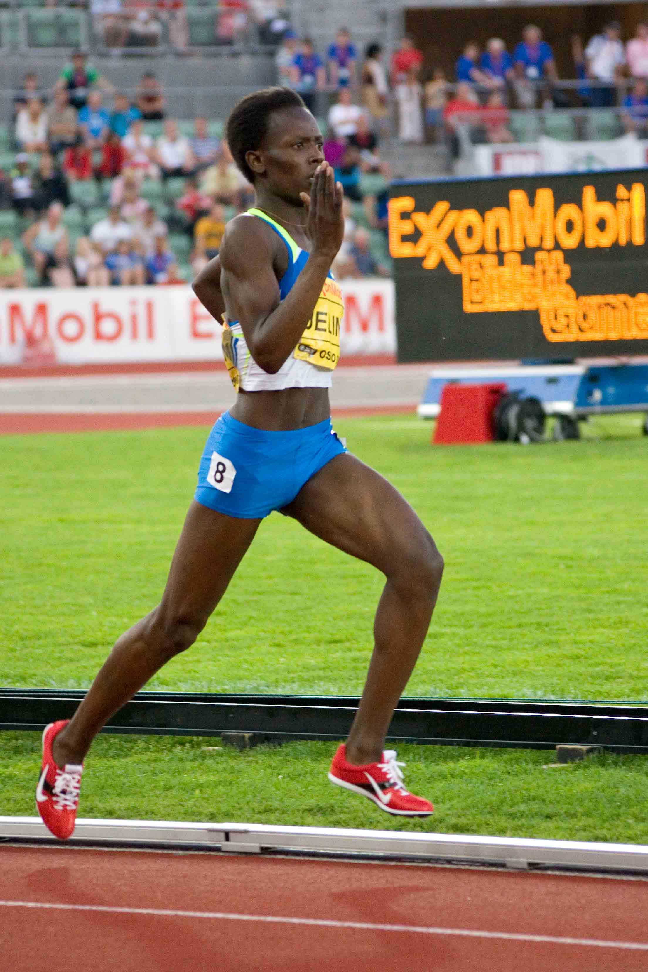 800m women: Pamela Jelimo of Kenya